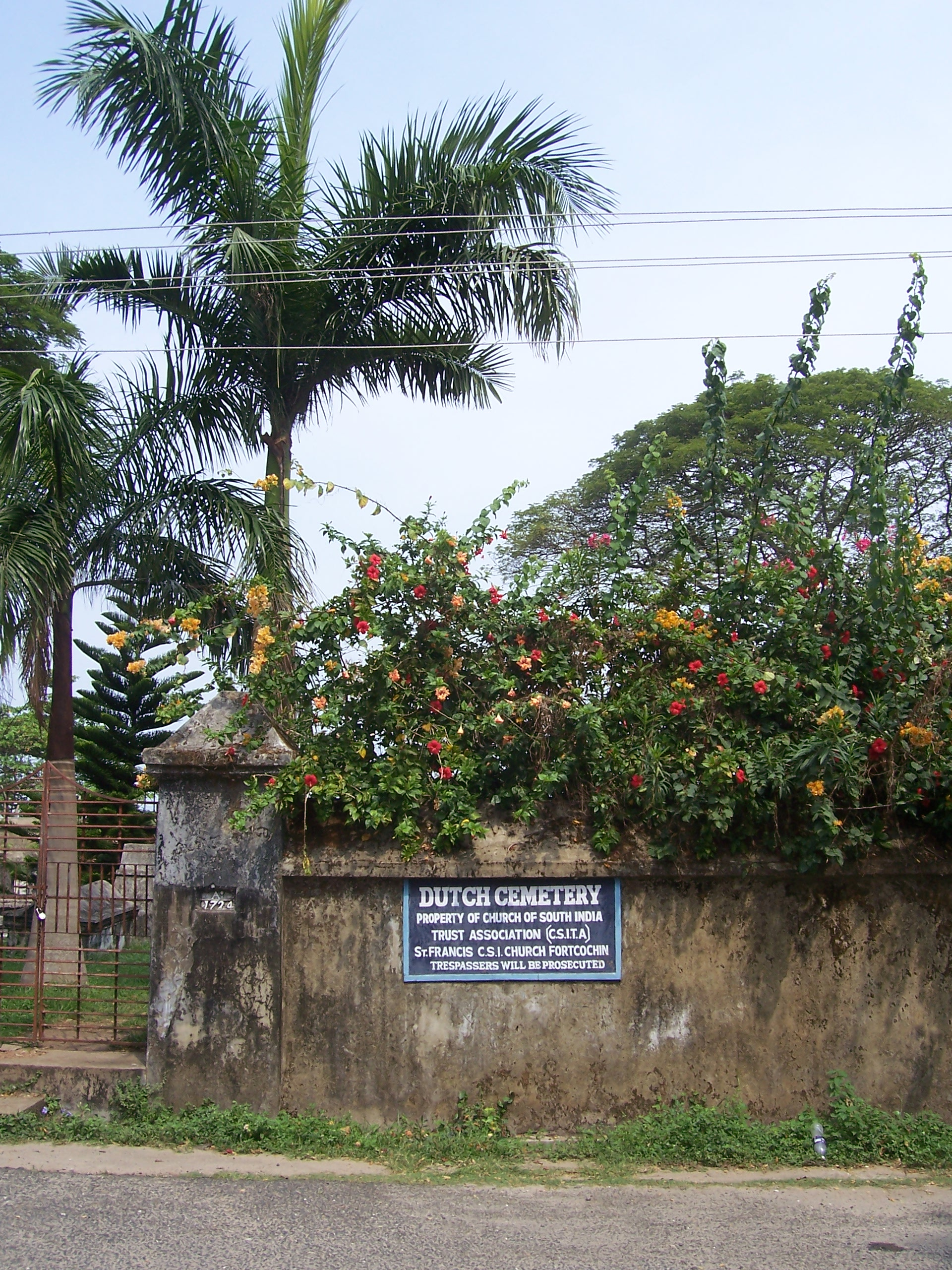 Dutch cemetery of Fort Kochi.